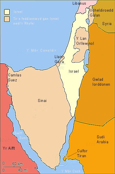 Israel and the territories Israel occupied in the Six day war.